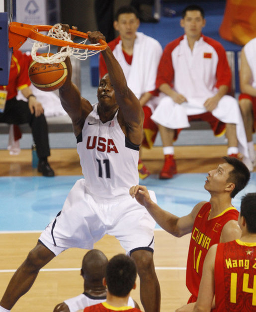 Dwight Howard, U.S. Olympic Men's Basketball team member, makes a slam dunk Aug. 10, 2008, during action in the Group B men's Olympic basketball game between the U.S. and China, at the 2008 Summer Olympic Games in Beijing.